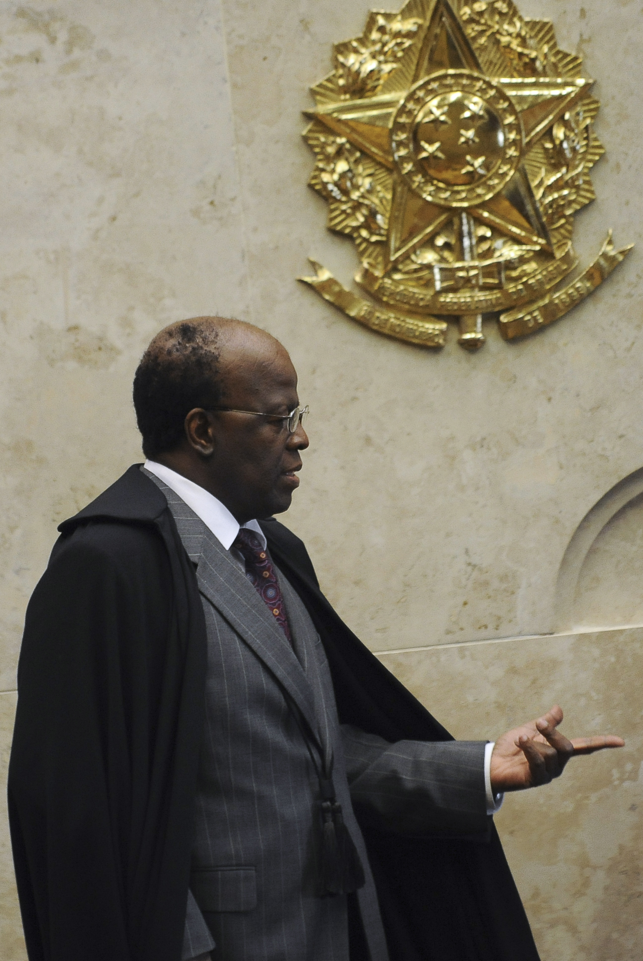 presidente interino do Supremo Tribunal Federal (STF), Joaquim Barbosa, durante sessão em que os ministros continuam a fixar as penas dos réus condenados na Ação Penal 470, conhecida como mensalão.